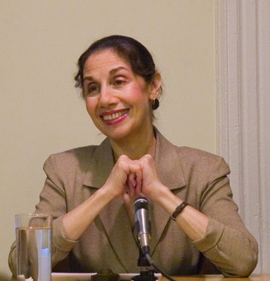 Ellen Reiss, Chairman of Education, Aesthetic Realism Foundation.